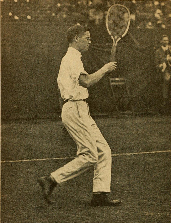 American tennis player Charles "Chuck" Garland (1898–1971), at the 1918 US Hard Court Championships at Pittsburg, PA.